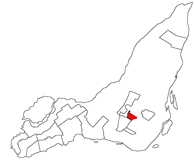 Map of Hampstead on the Isle of Montreal